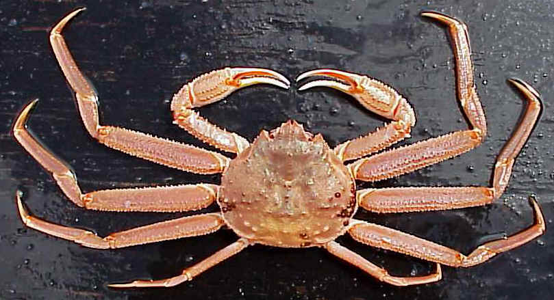 The tanner crab, Chionoecetes bairdi. Taken from the NOAA.